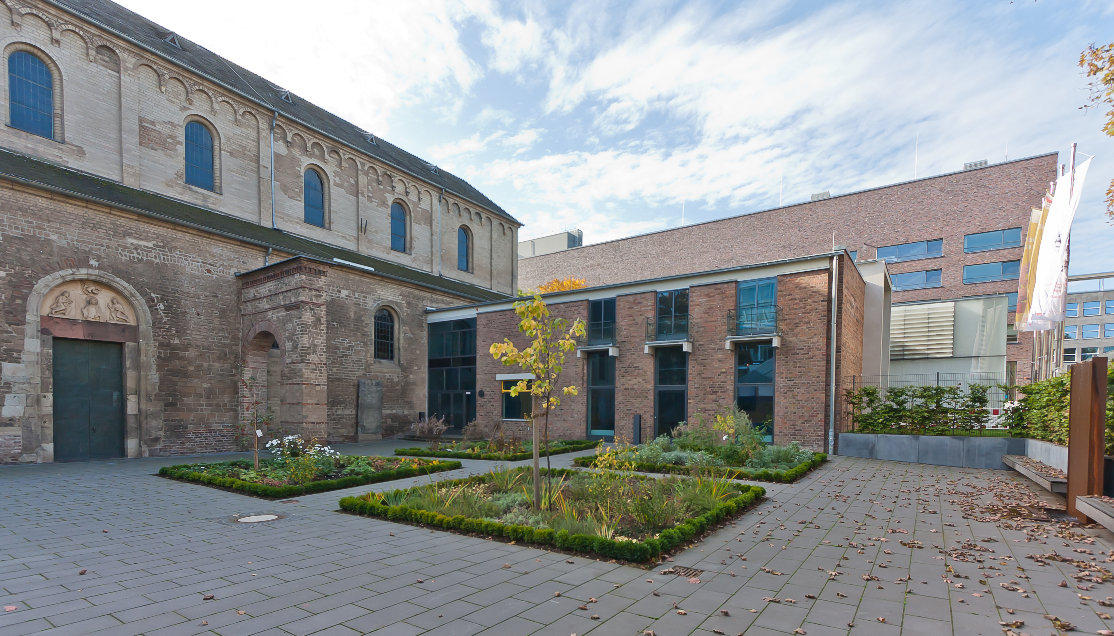 Former monastery garden of St. Cäcilien. Now part of Museum Schnütgen